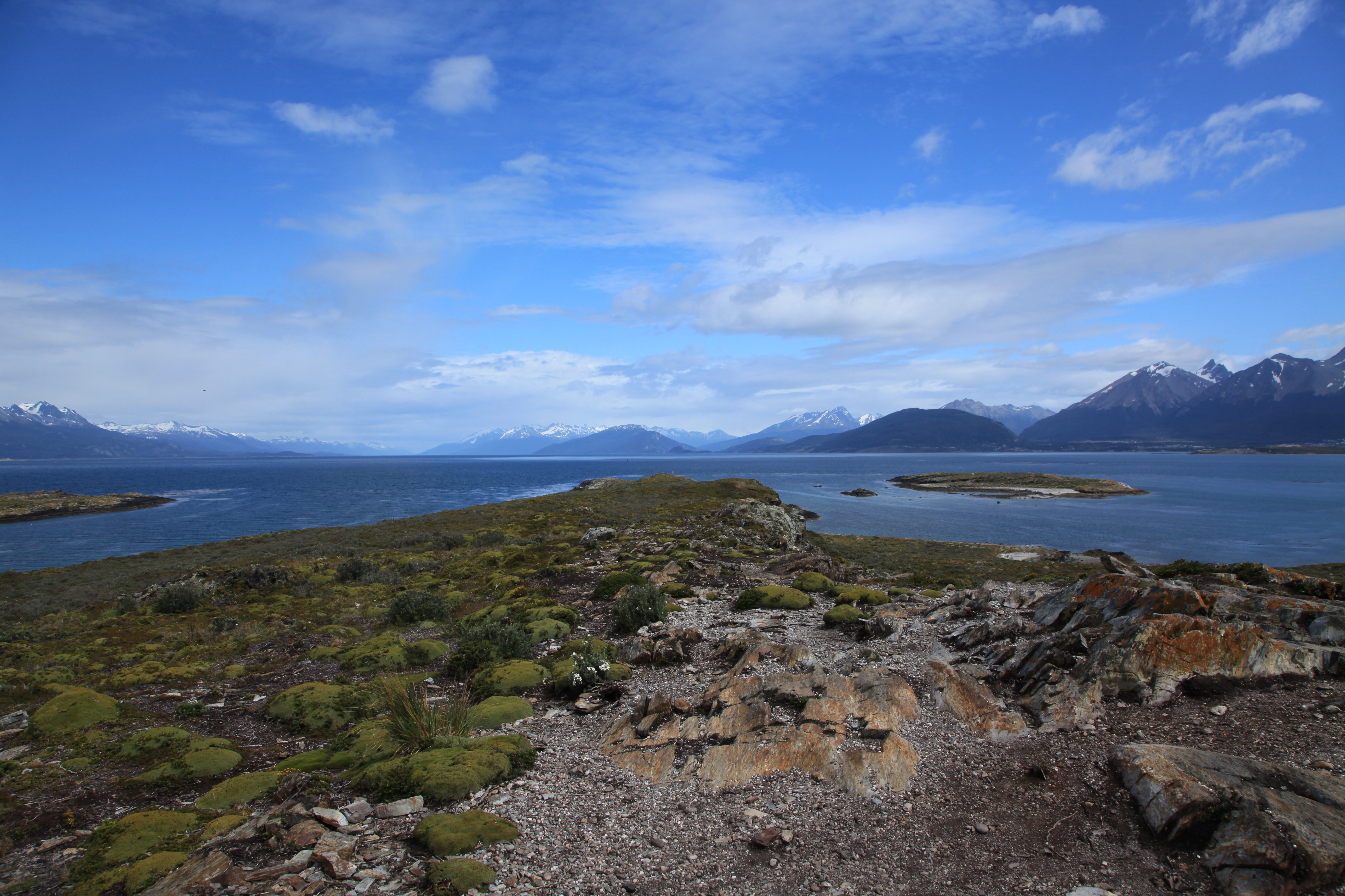 Beagle Channel views from Bridges Island